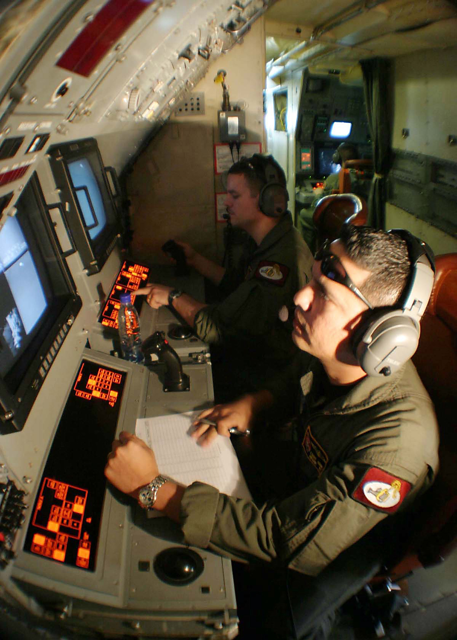 Utapao, Thailand (Dec. 31, 2004) - Aviation Warfare Systems Operators monitor the acoustic station during the flight of a P-3C Orion, assigned to the "Fighting Tigers" of Patrol Squadron Eight (VP-8). VP-8 is currently on a regularly scheduled deployment to Japan. Four air crews are detached to Thailand in support of Operation Unified Assistance, the humanitarian relief effort to aid the victims of the tsunami that struck Southeast Asia. U.S. Navy photo by Photographer's Mate 3rd Class Shannon R. Smith (RELEASED)